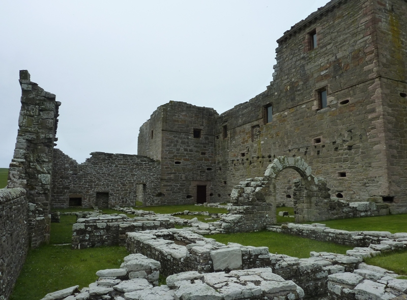 Noltland Castle, Westray, Orkney, Scotland. Courtyard.